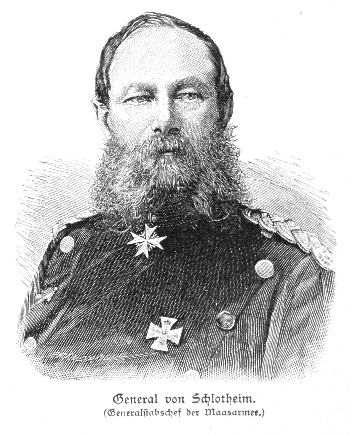 general von Schlotheim